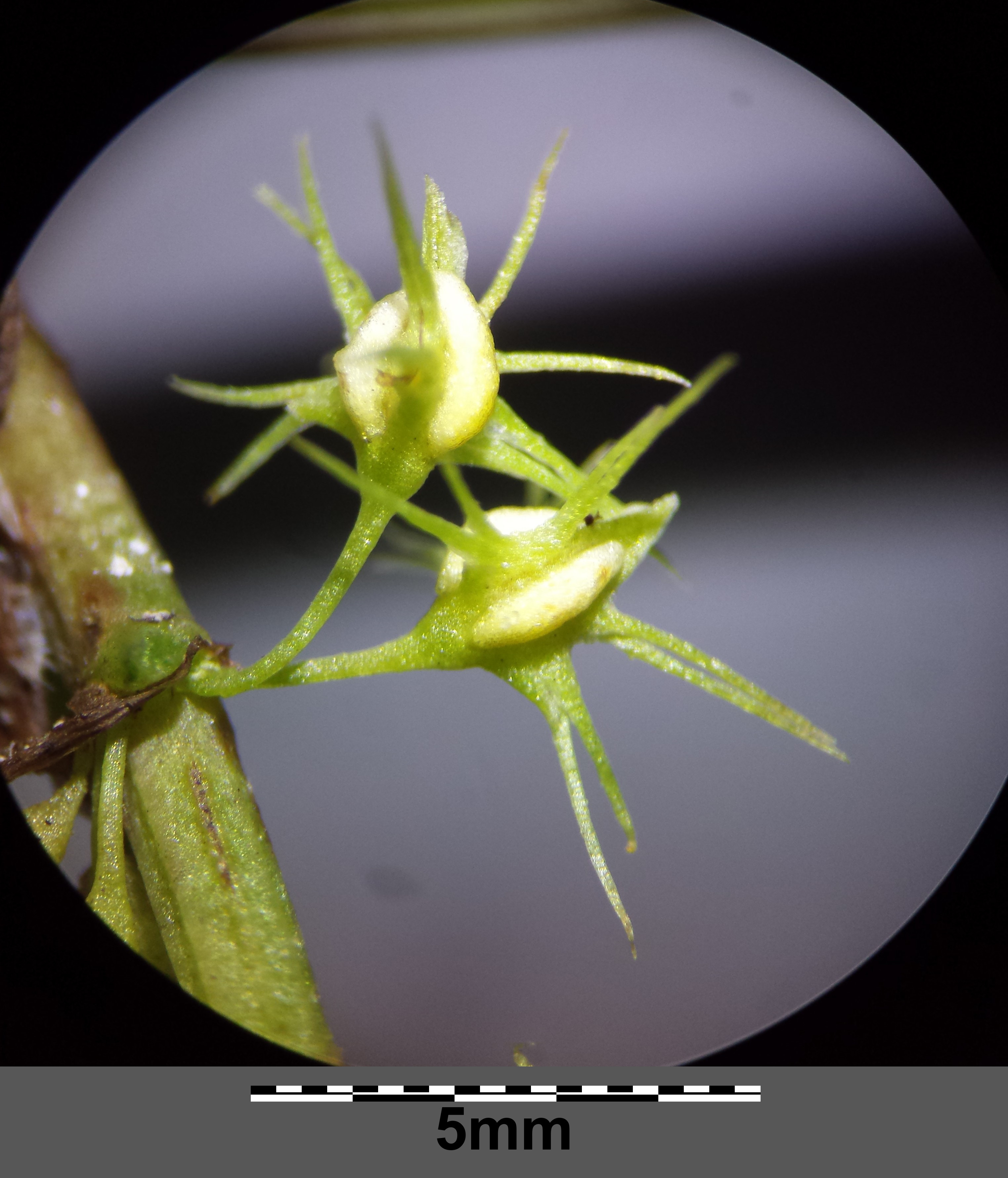 Fruits Taxonym: Rumex maritimus ss Fischer et al. EfÖLS 2008 ISBN 978-3-85474-187-9 Location: Žárský rybník, Jihočeský kraj, Czech Republic - ca. 500 m a.s.l. Habitat: ground of a pond